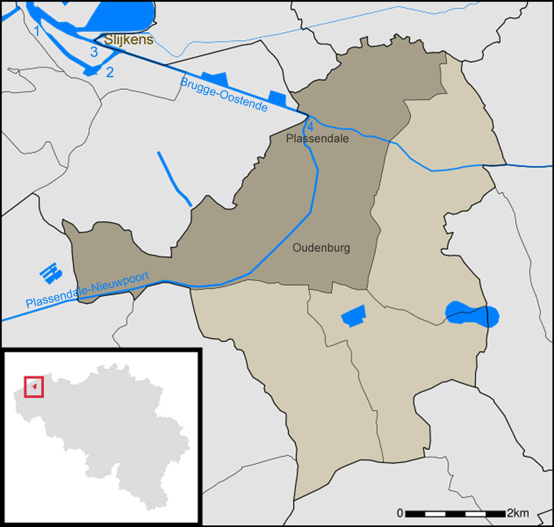 Situation of Plassendale and the locks on the canal Brugge-Oostende